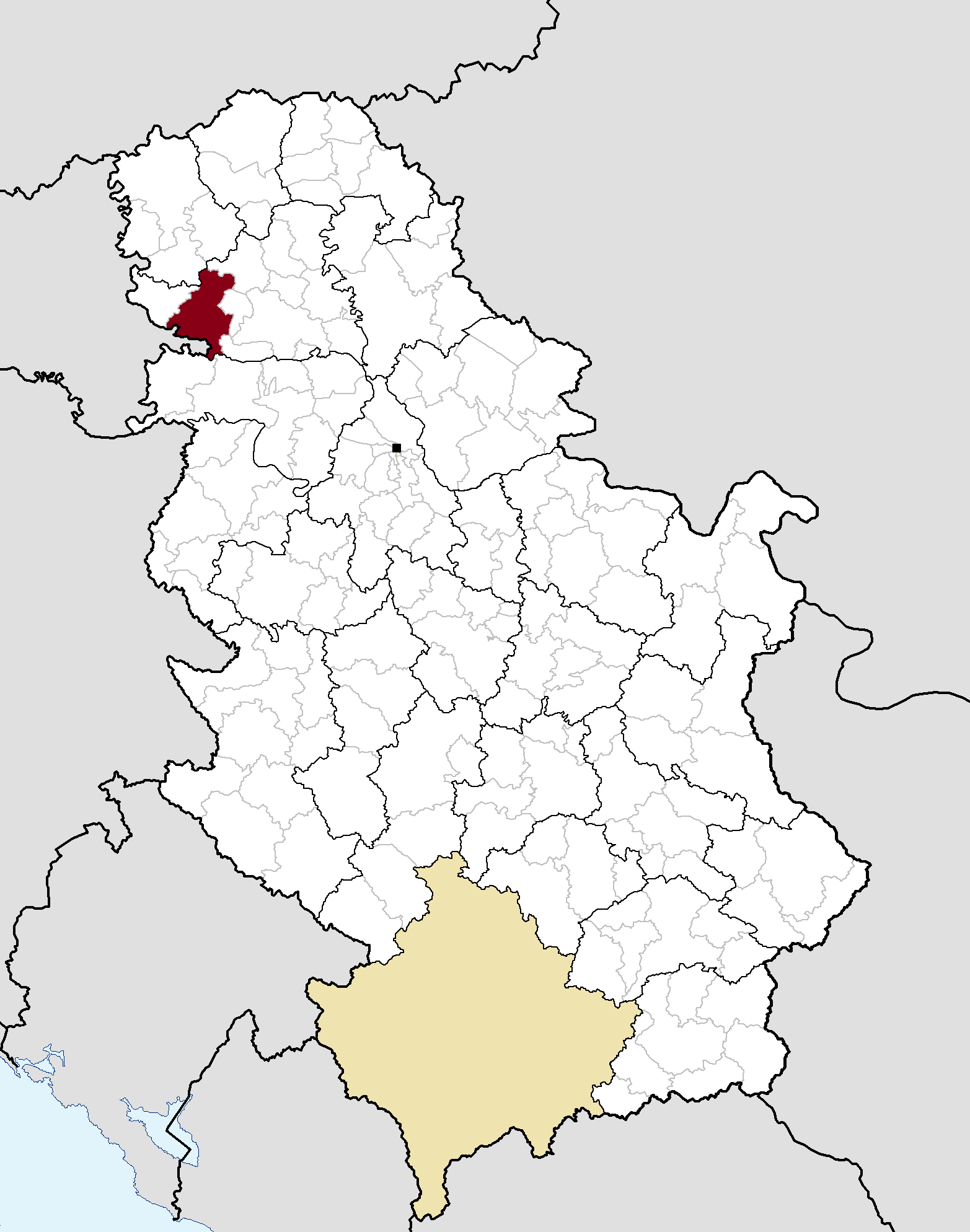 Municipal location in Serbia